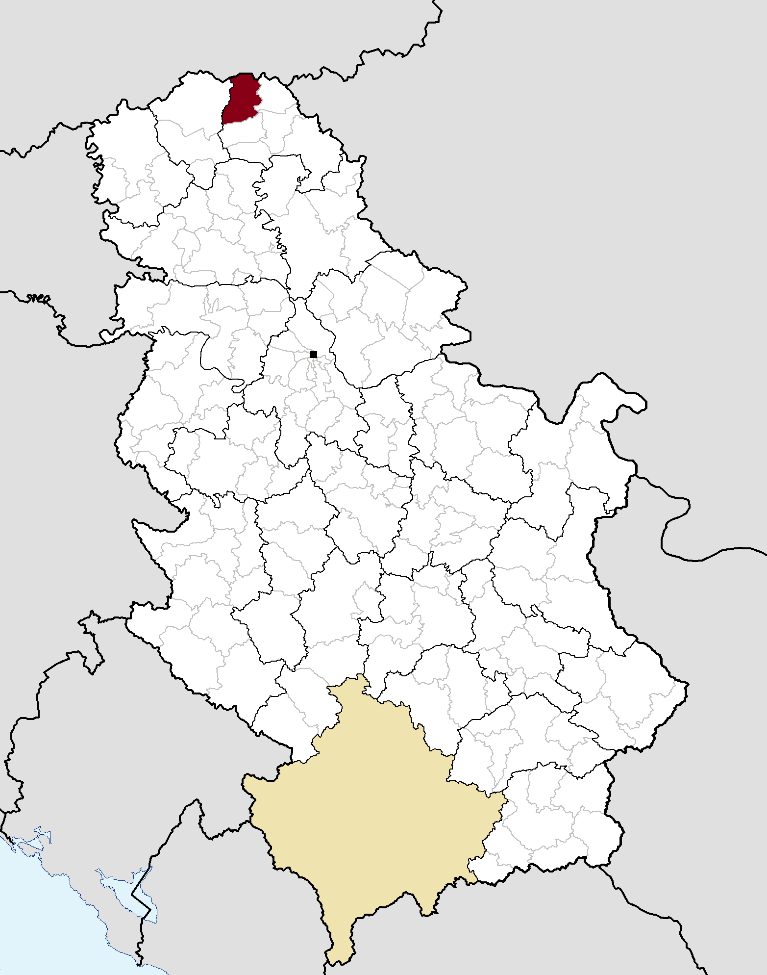 Municipal location in Serbia